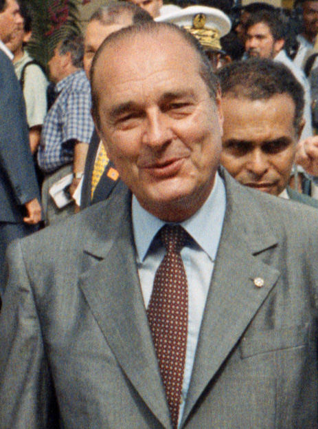 French president Jacques Chirac